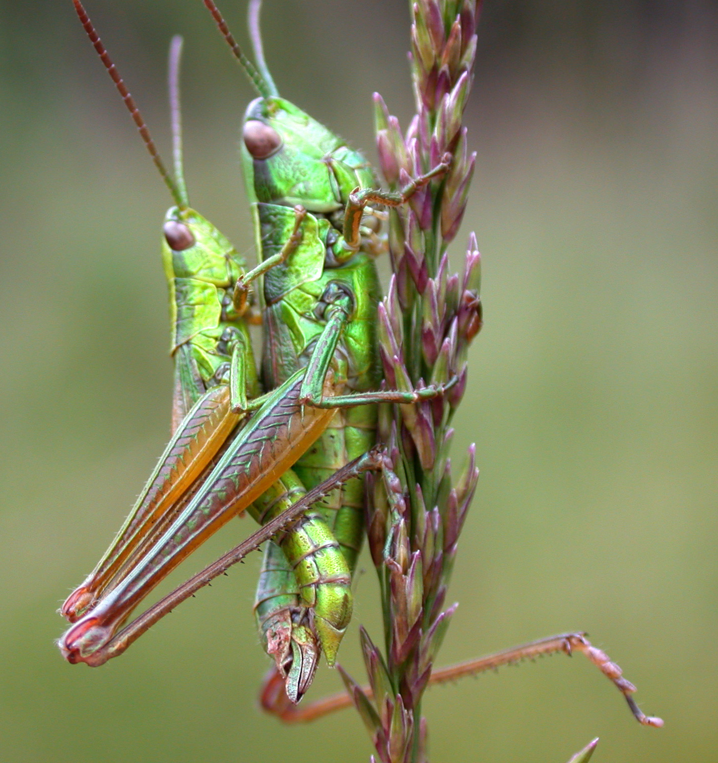 Euthystira brachyptera male and female (bog near Milkel, Germany)